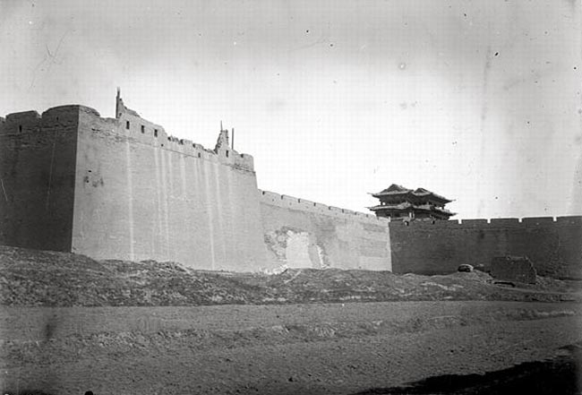 Datong City Wall in 1907 1